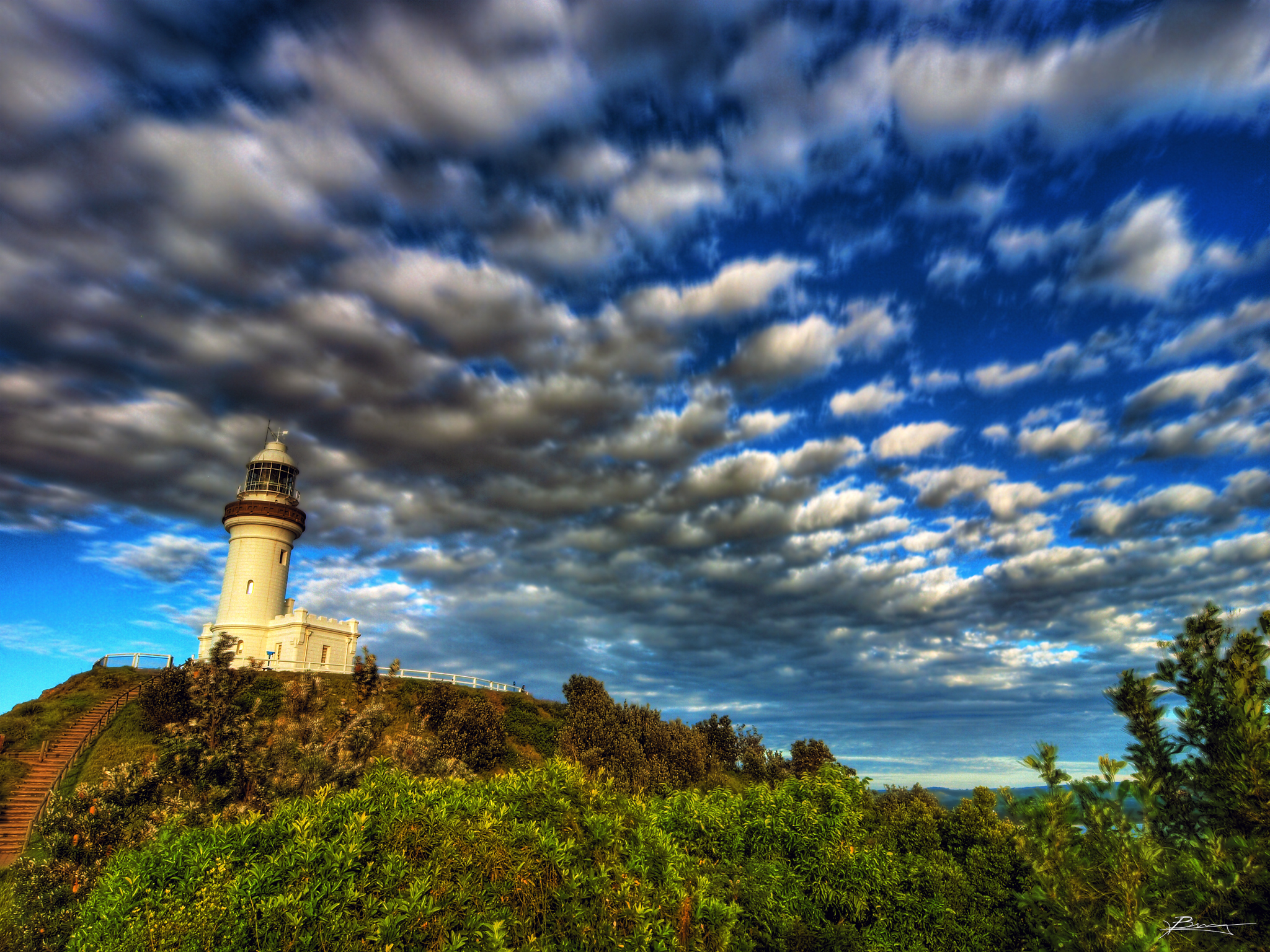 Cape Byron Light on Cape Byron, New South Wales, Australia illuminates the most easterly part of Australia.